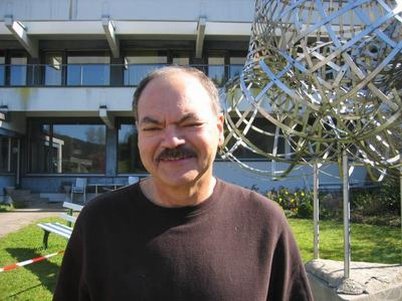 Edward B. Saff, Oberwolfach 2007